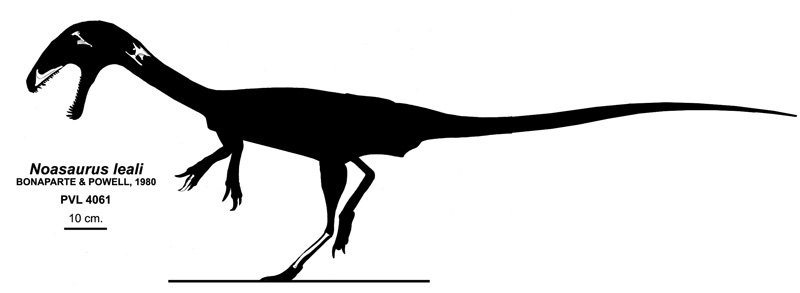 Skeletal reconstruction of Noasaurus leali.